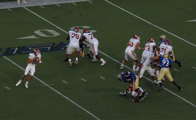 Sam Bradford of the Oklahoma Sooners looks for an open receive in a game against the Tulsa Golden Hurricane on September 21, 2007.